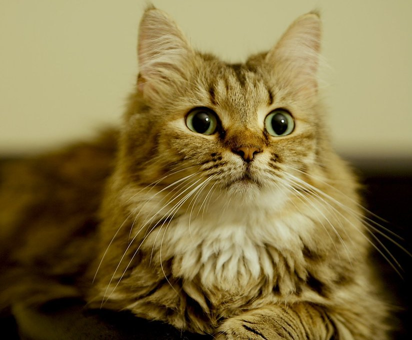 Coco was a 2-year old female Maine Coon when this photo was taken.